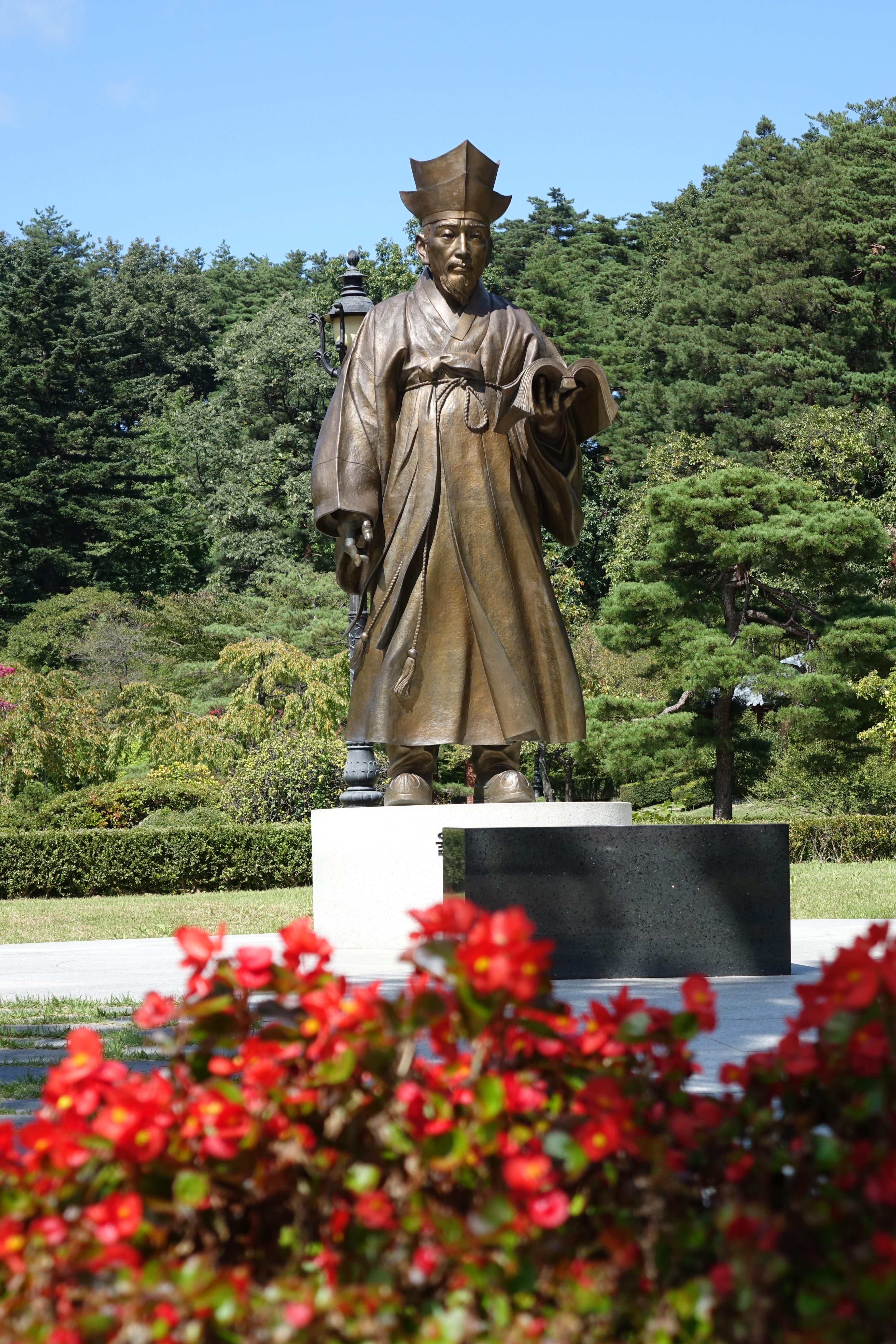 본 저작물을 'CC0 1.0 보편적 퍼블릭 도메인 기증' 저작권으로 배포합니다. 사진에 대해 궁금하신 점이나 원본 파일(ARW)을 원하시는 분은 여기로 연락주세요. 감사합니다. 2015년 10월 4일. 최광모.